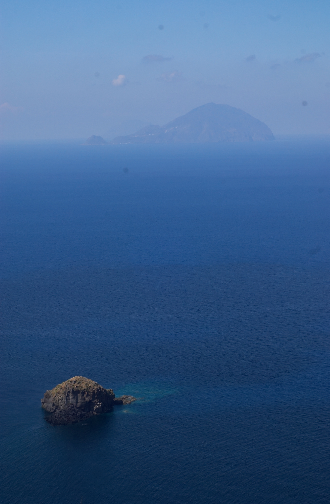 Scoglio di Pollara, Salina, Aeolian Islands, Sicily, Italy; in the background the island Filicudi